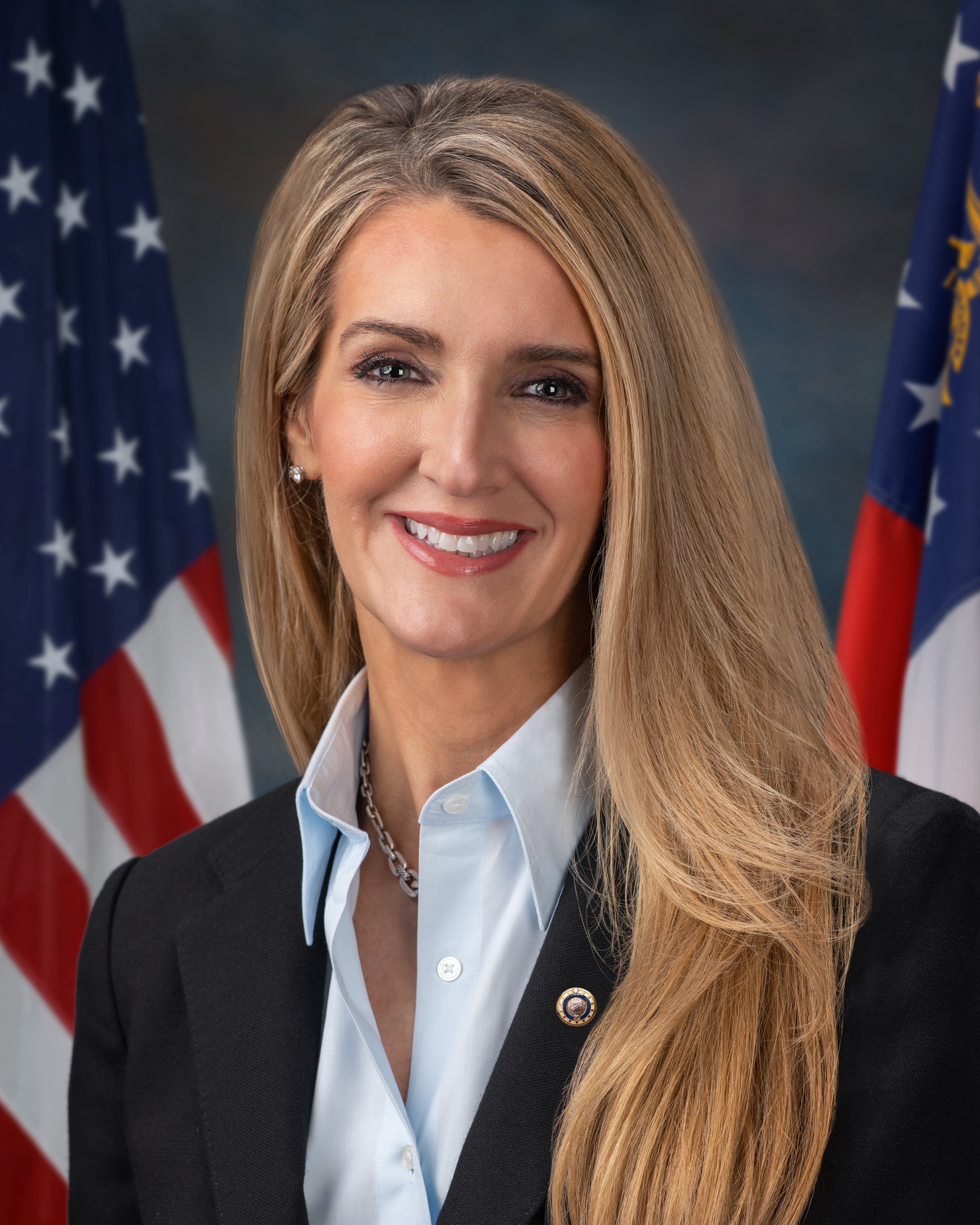 Senator Kelly Loeffler (R-GA)